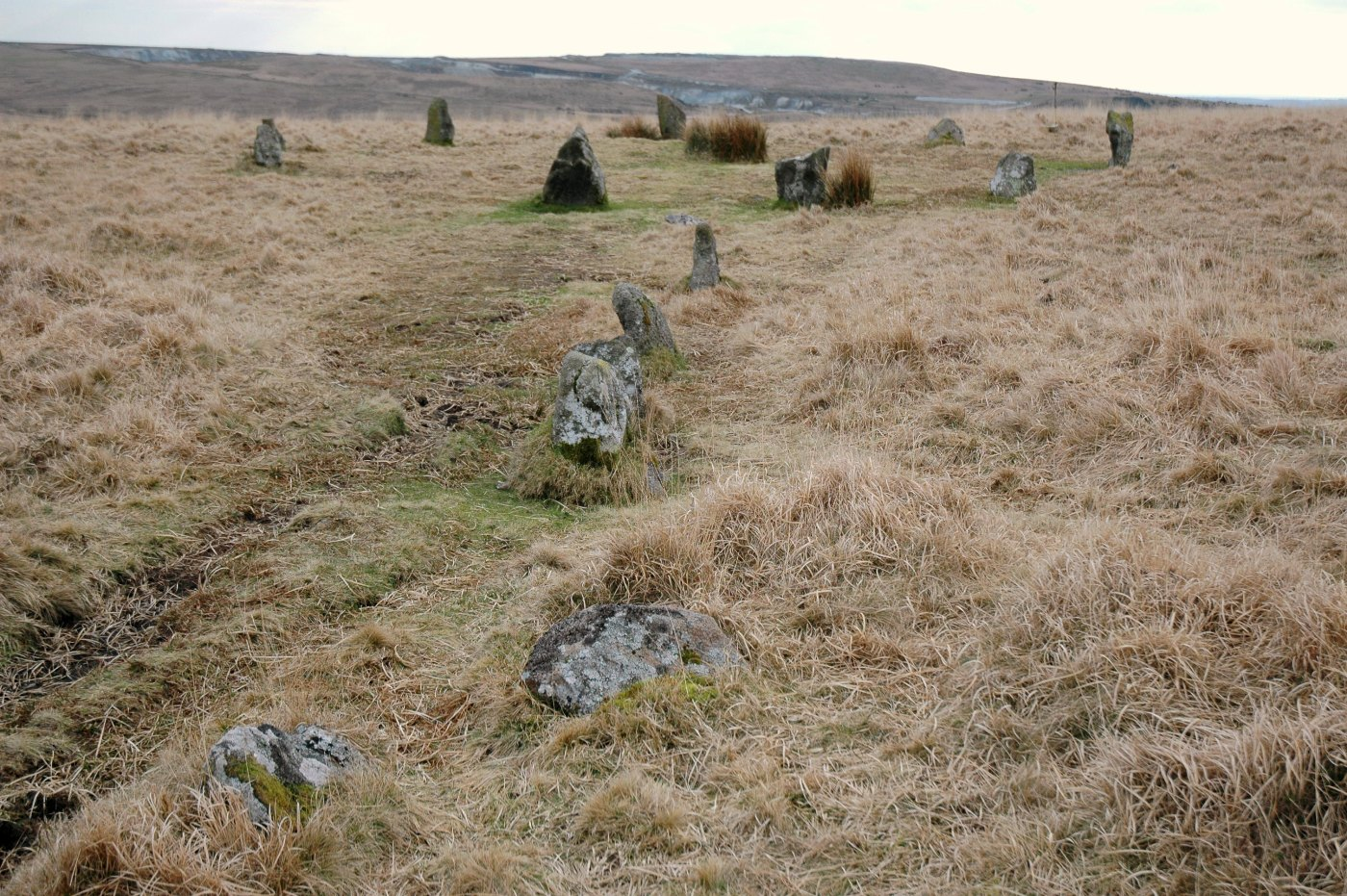 Another burial chamber and not a proper circle but a great setting and a prominent stone row leading up to it